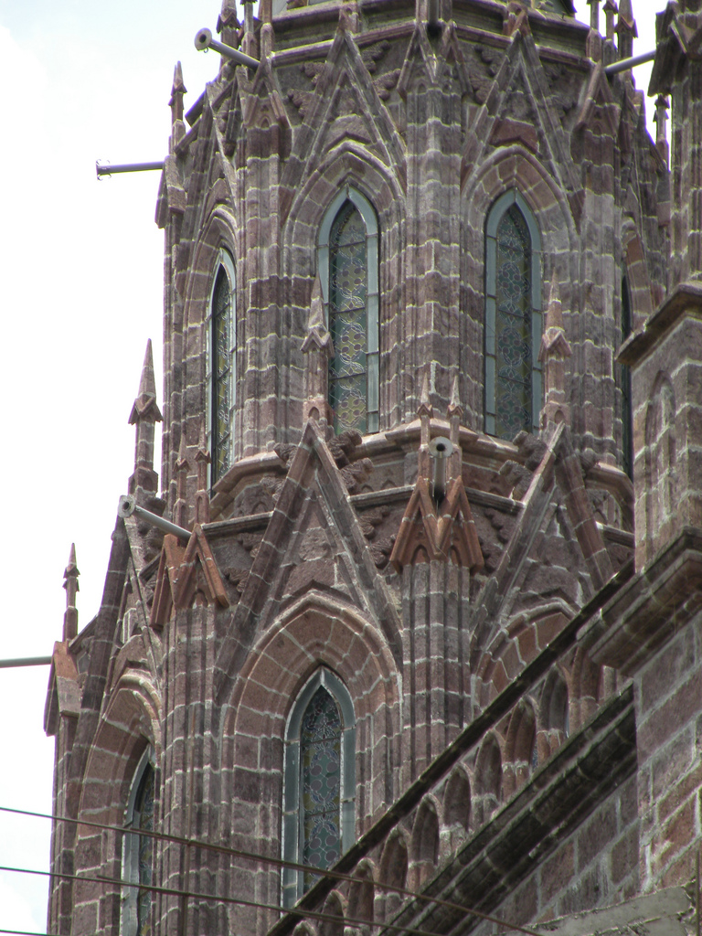 Imagen de la aguja de crucero del santuario, Hloutweg